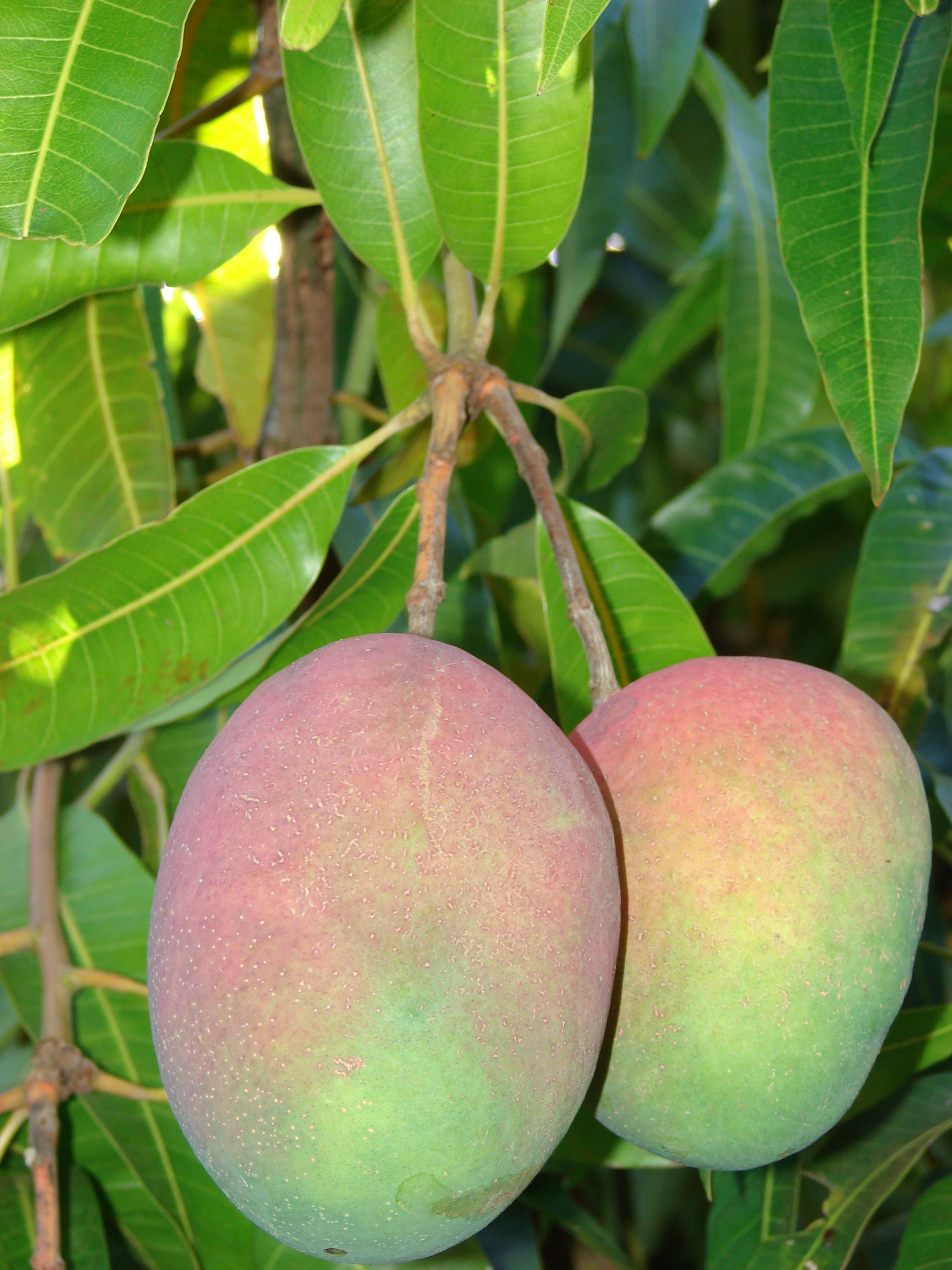 Mangifera indica (fruit). Location: Maui, Enchanting Floral Gardens of Kula